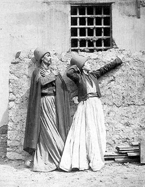 Dervish in old Damascus. Photo taken by T Hartvin 1864.